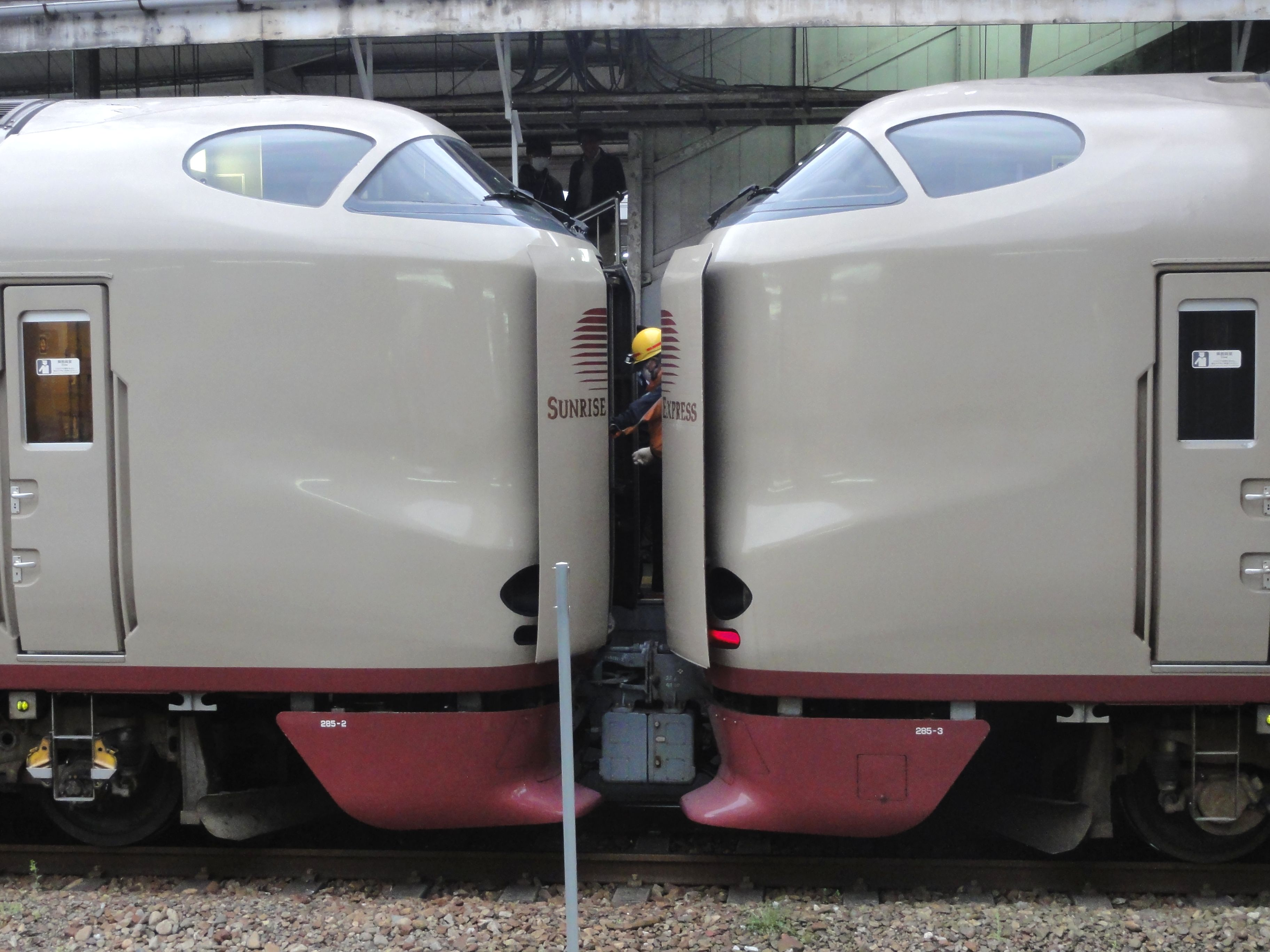 Sunrise Izumo and Sunrise Seto 285 series EMUs being uncoupled at Okayama Station